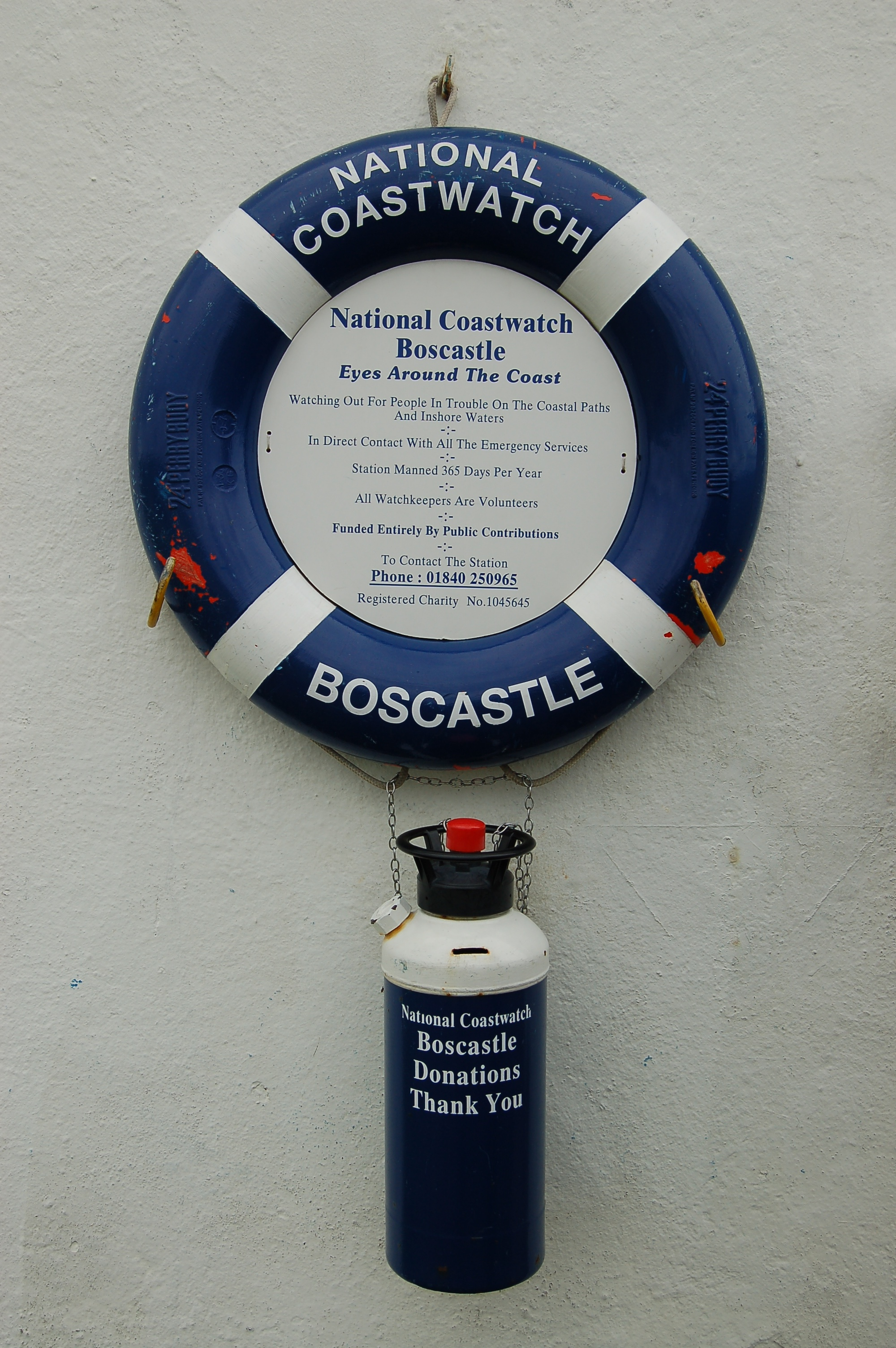 Life save ring at the National Coastwatch station in Boscastle, Cornwall, UK